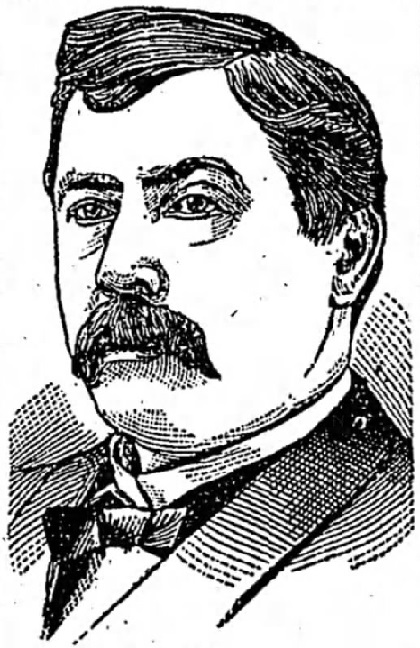 Andrew Jackson Caldwell (Tennessee Congressman)